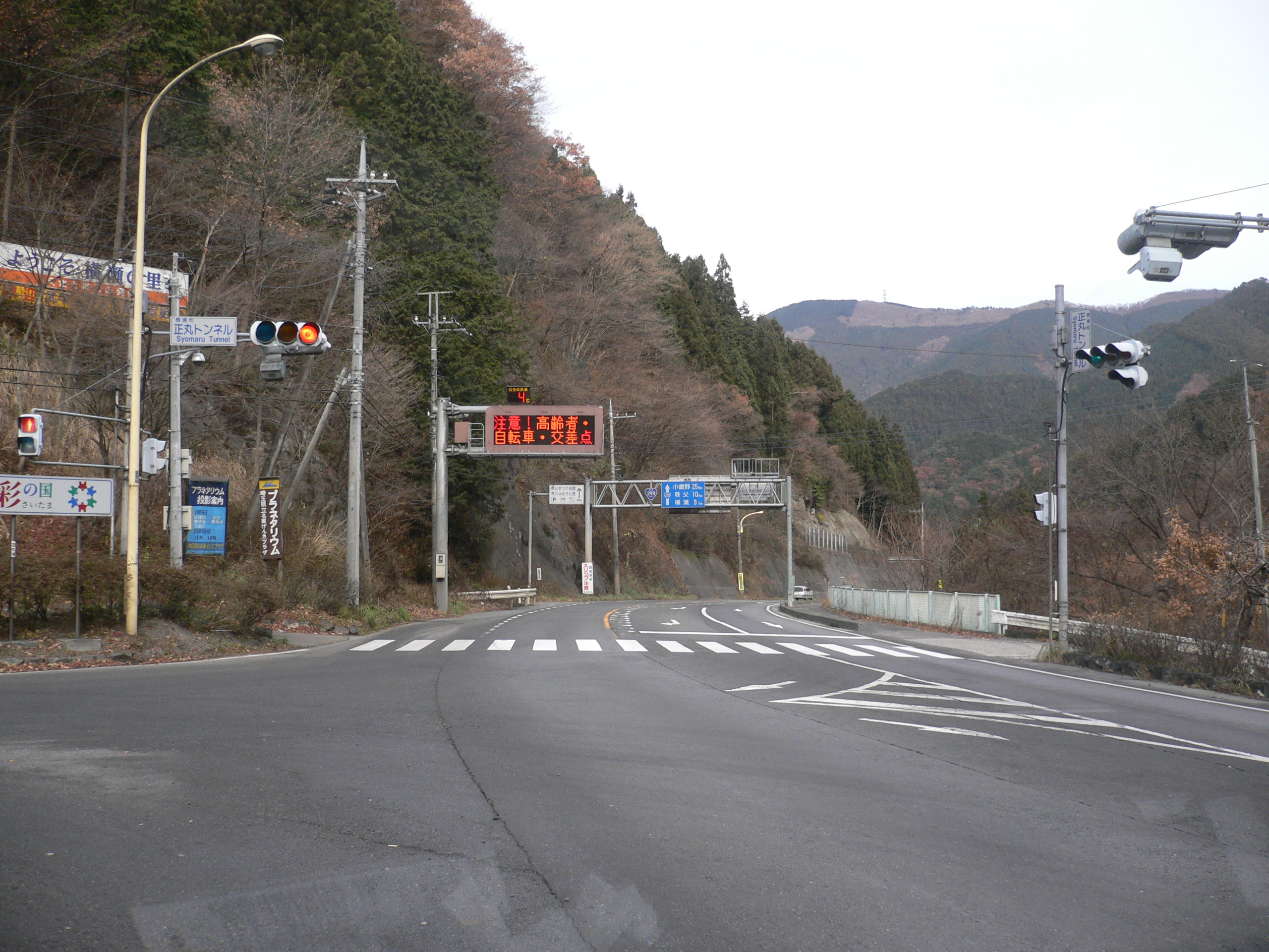 Route 299 & Saitama prefecture road 53(国道299号/埼玉県道53号青梅秩父線), Hanno C, Saitama P.